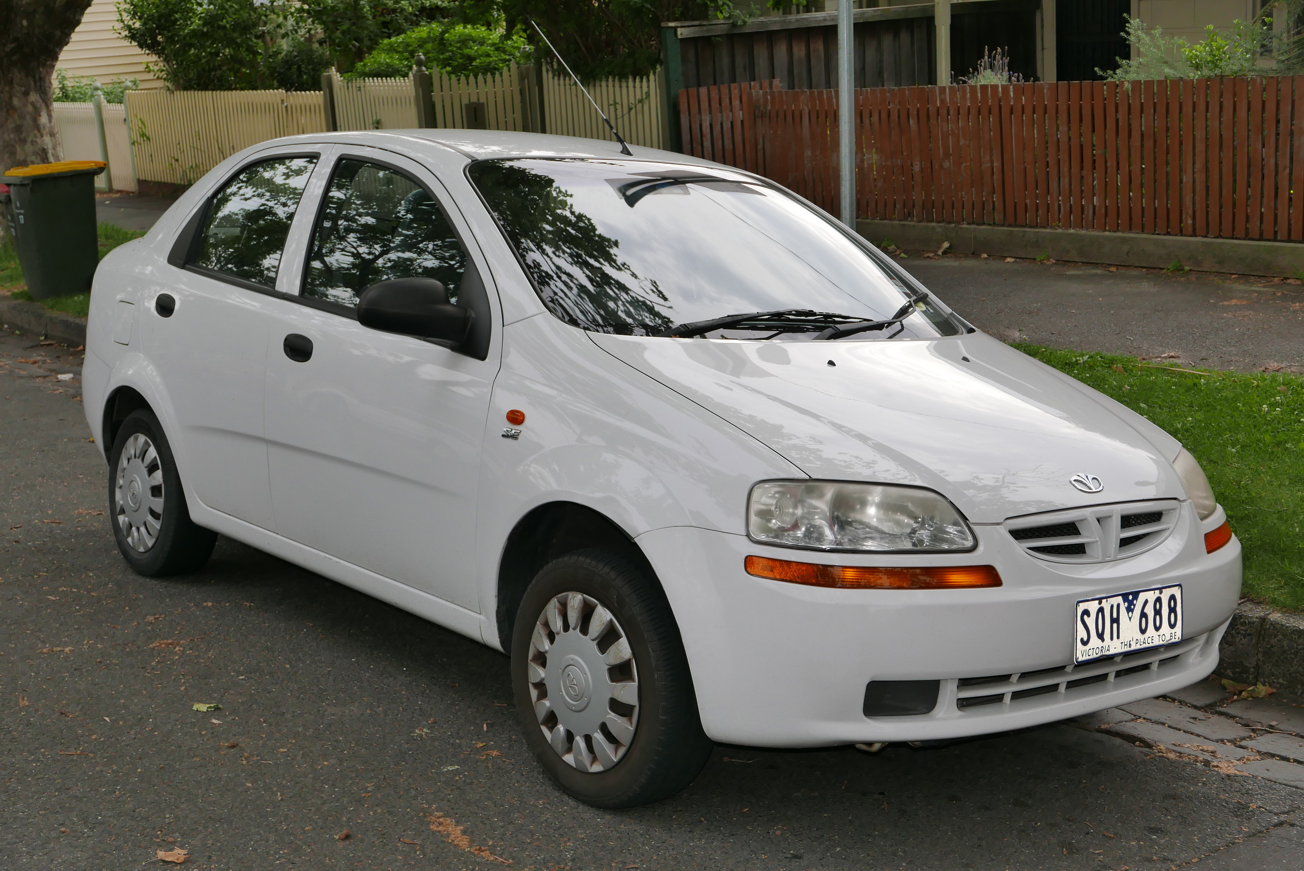 2003 Daewoo Kalos (T200) SE sedan. Photographed in Flemington, Victoria, Australia. Vehicle registration enquiry resultsJurisdictionVictoriaRegistrationSQH688Chassis codeKLASA69YE3B093973Engine code030980KCompliance date2003-11Year of manufacture2003